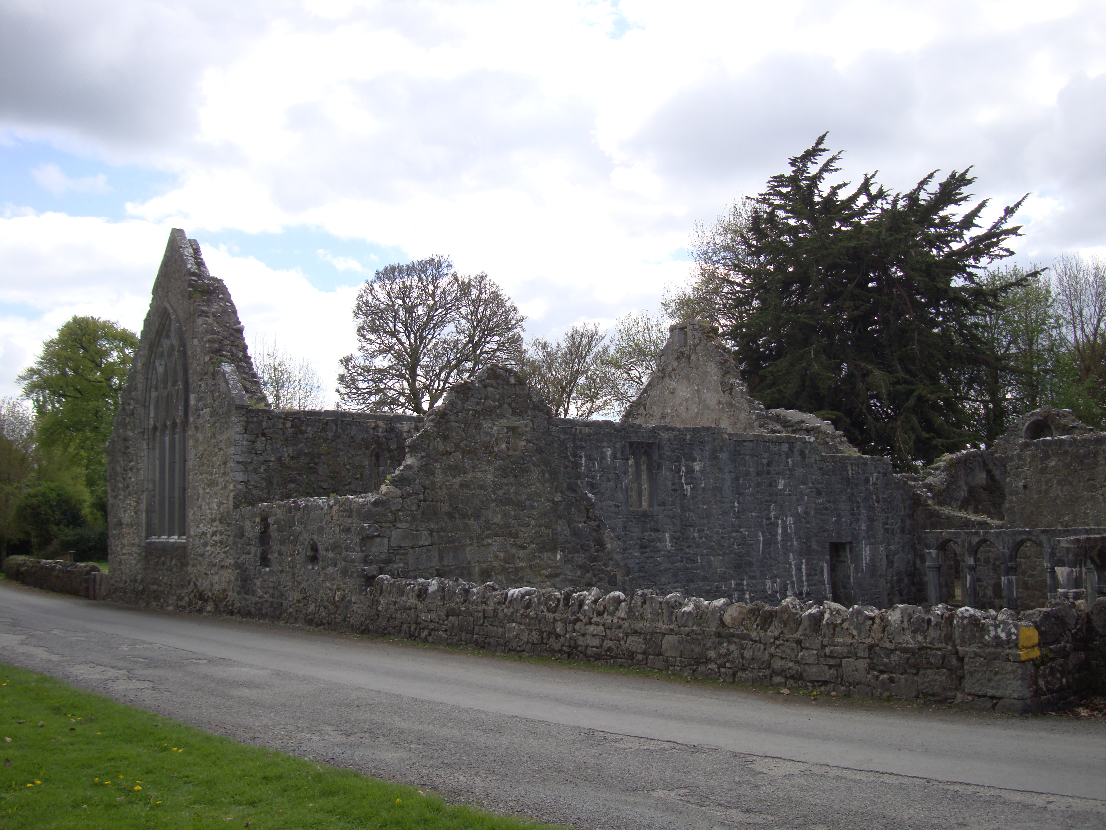 Photograph of Portumna Friary, Co. Galway, Ireland